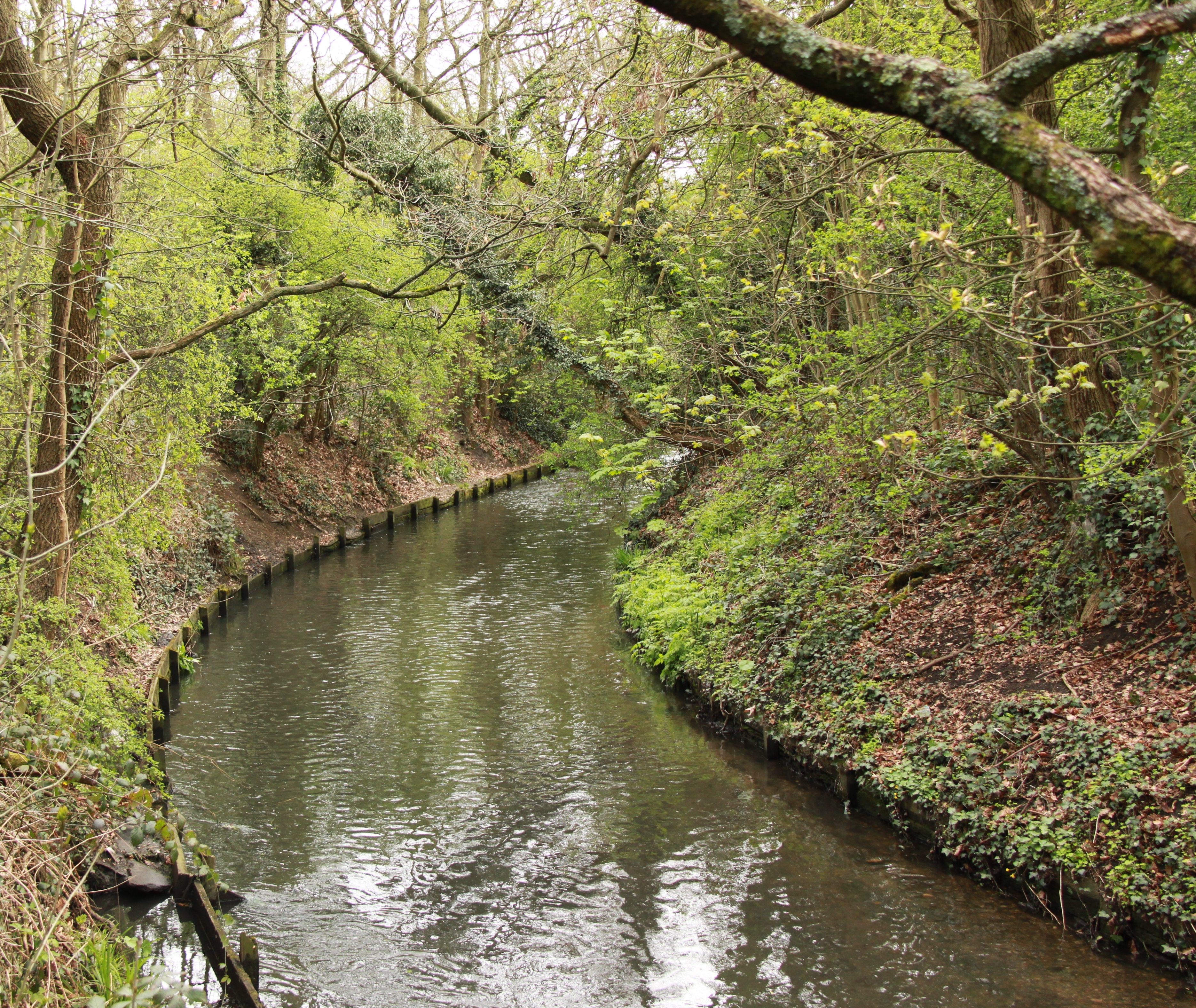 Spring in London - Wimbledon - April 2012